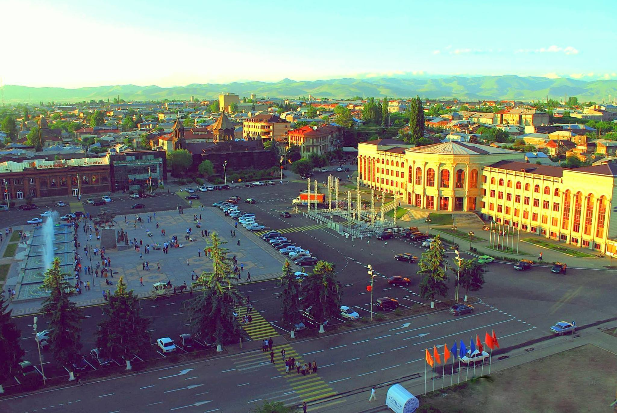 Armenia, Gyumri in 2013, from the Vartanants square